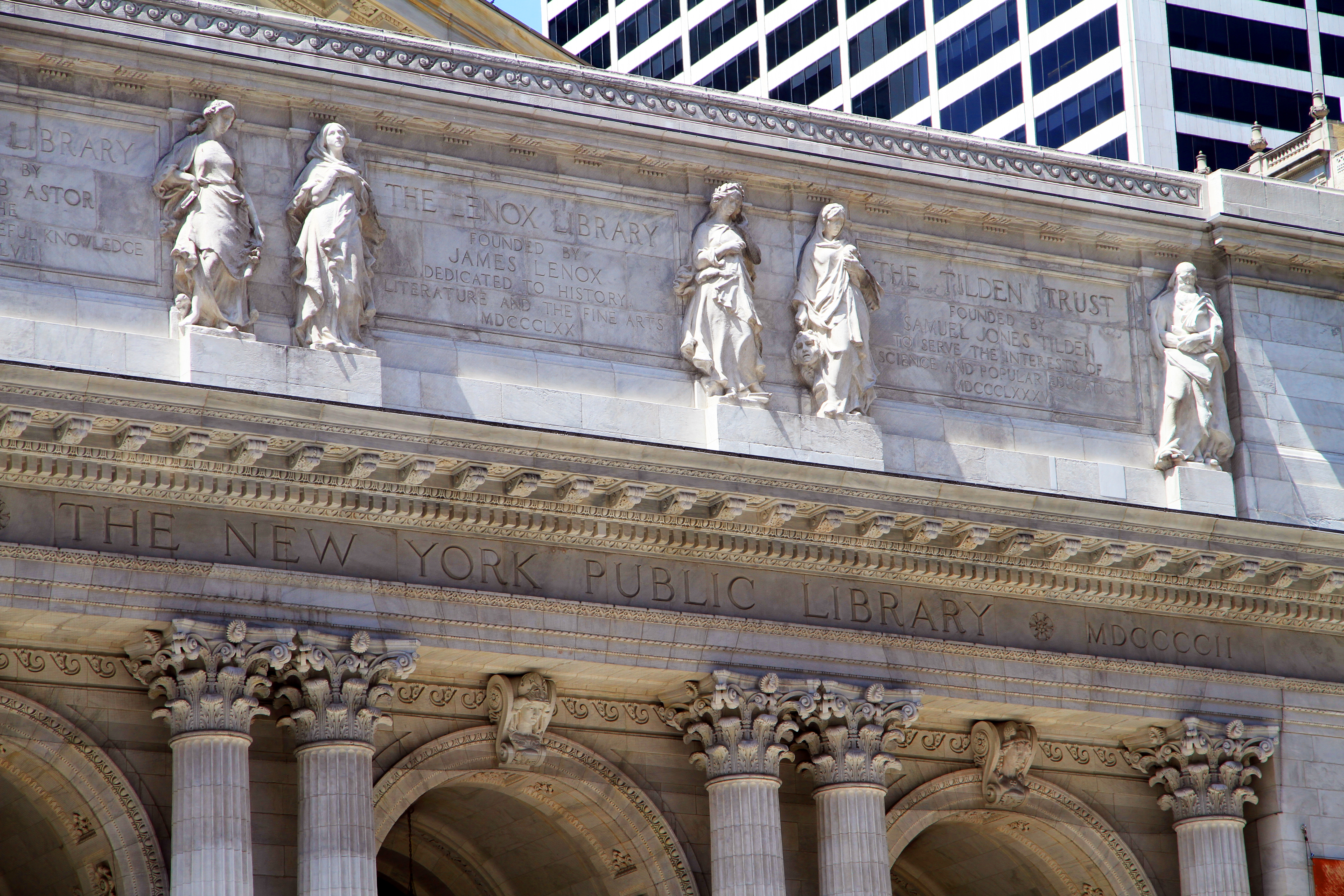 New York Public Library, 2013